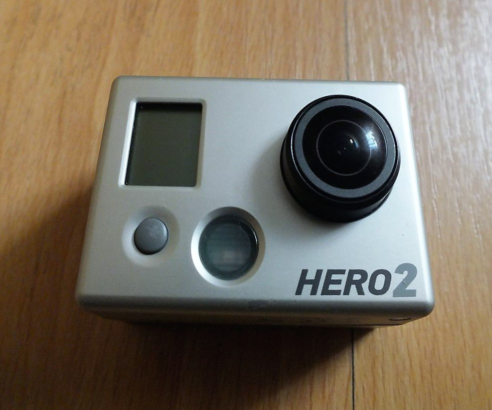 Camera GoPro HD Hero 2